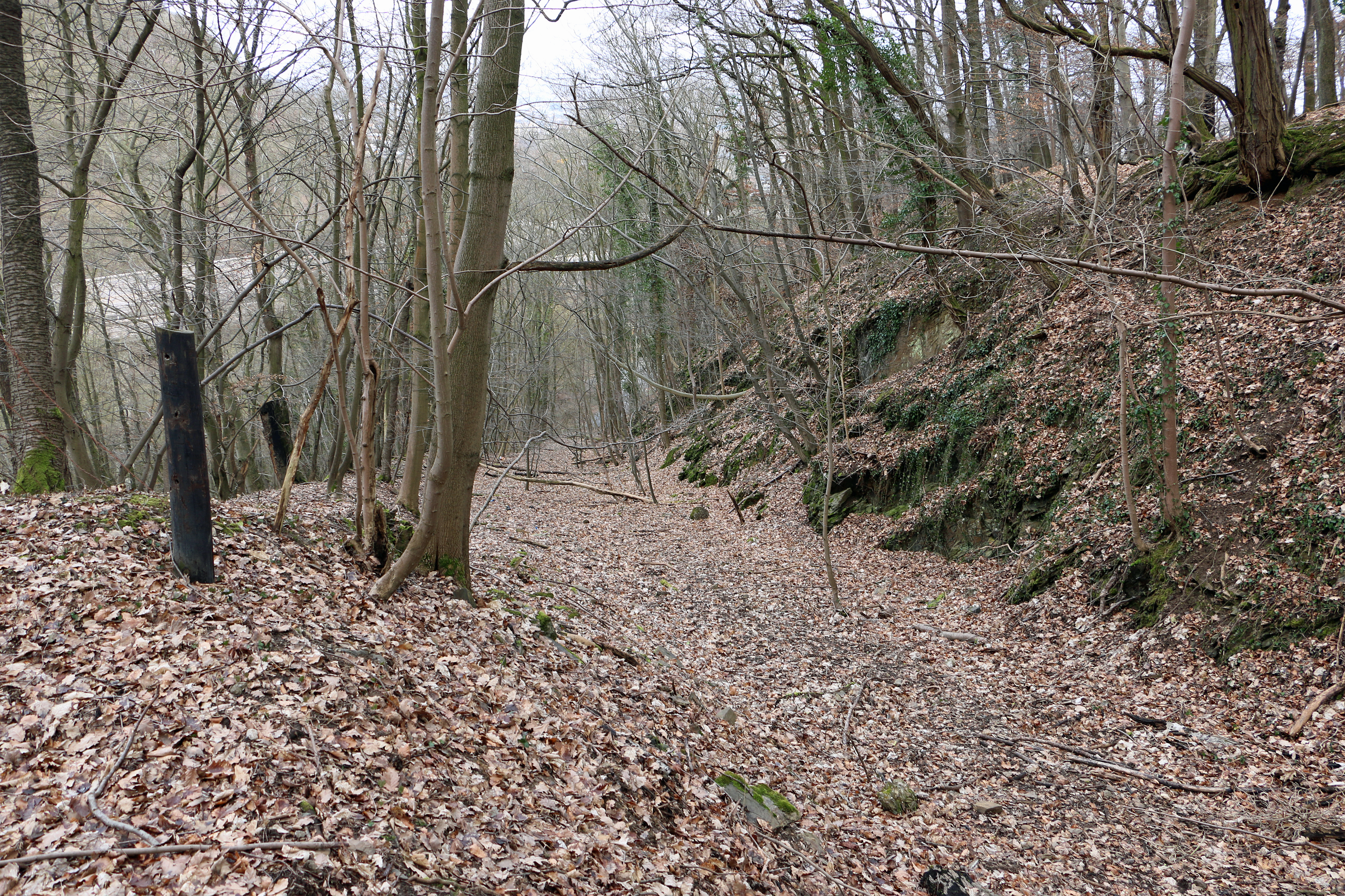 Rittersturzbahn in Koblenz